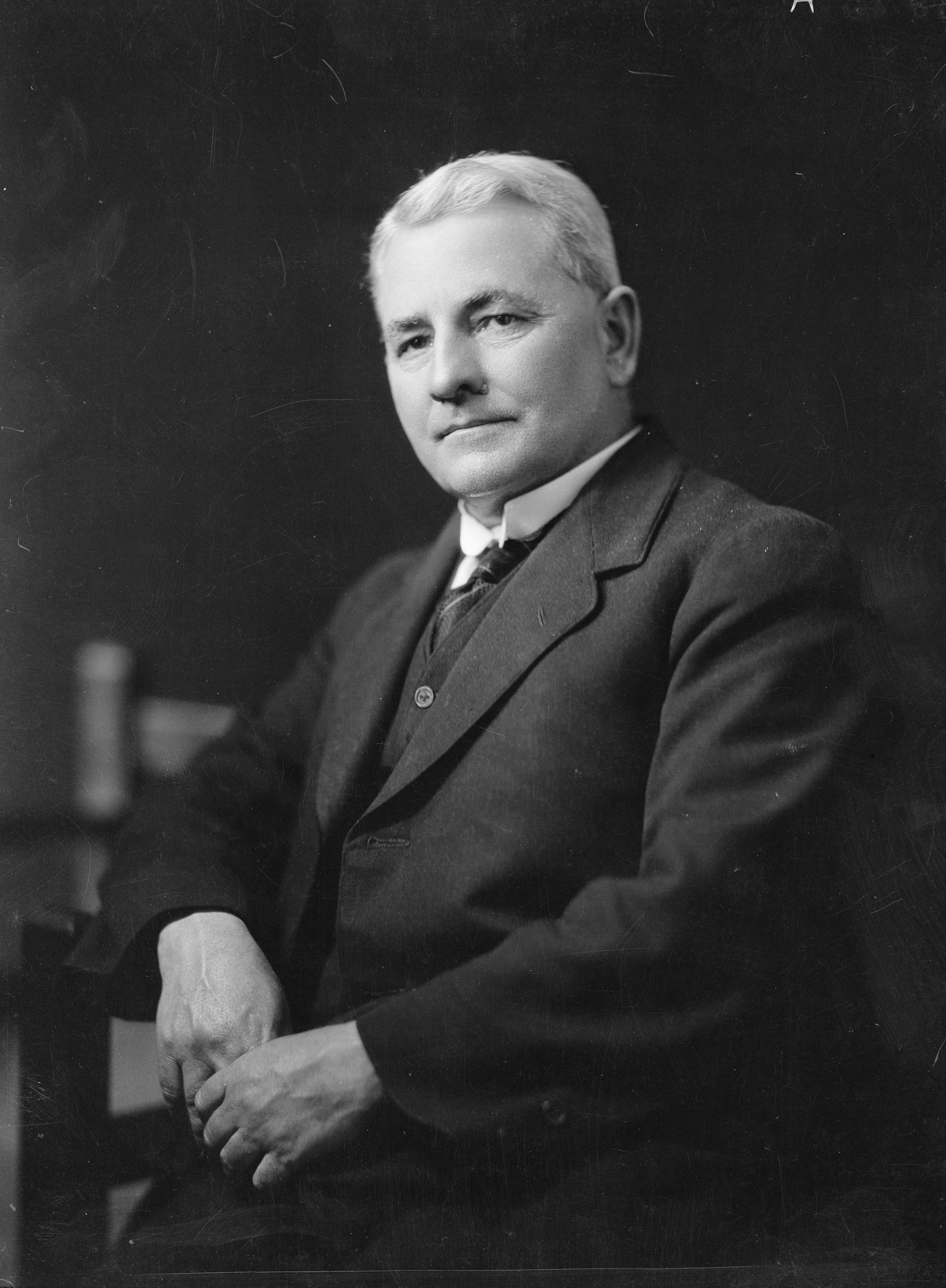 Harry Holland. Half length, seated, portrait. Photograph taken by S P Andrew Ltd in 1922, when Holland was leader of the Labour Party, and Member of Parliament for Buller.